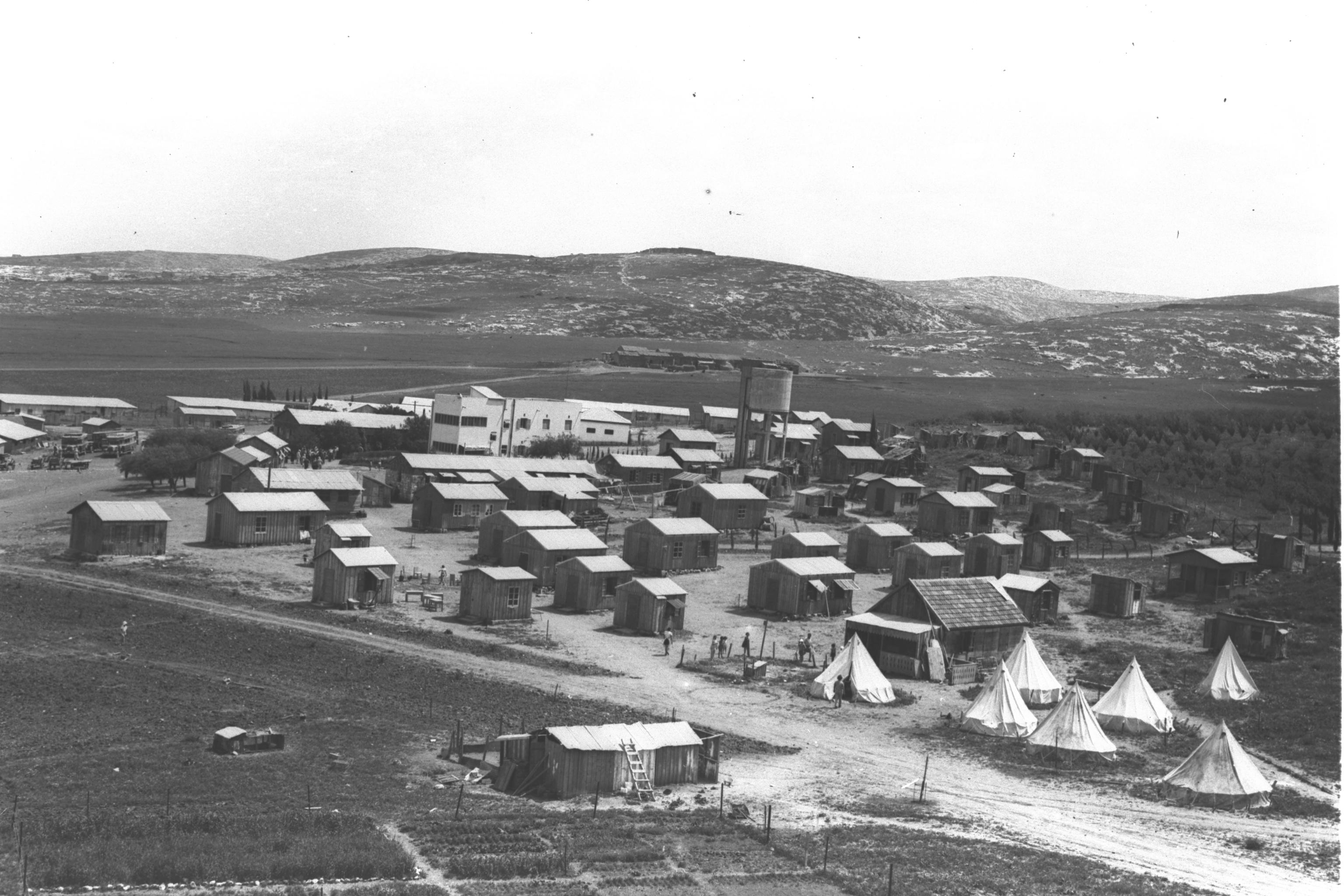 View of Kibbutz Mishmar Haemek.